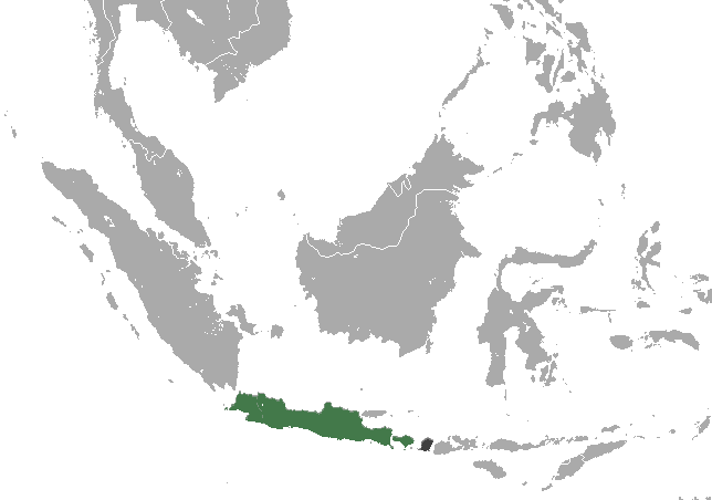 Javan Lutung (Trachypithecus auratus) range (green — native, dark gray — origin uncertain)